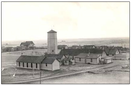 North West Mounted Police barracks, Regina, North-West Territories, birds'-eye view, circa 1890. Other information The RCMP training centre chapel before it was given religious use.